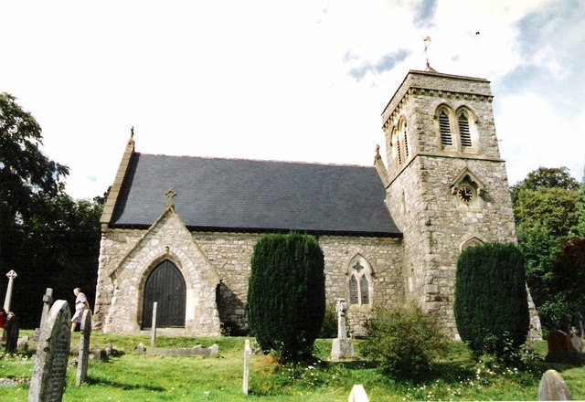 St John's Church Leusdon Built in 1863. The church is reached by a very narrow and steep lane off the moor but once one has found somewhere to park there is a view from the churchyard of the surrounding countryside.